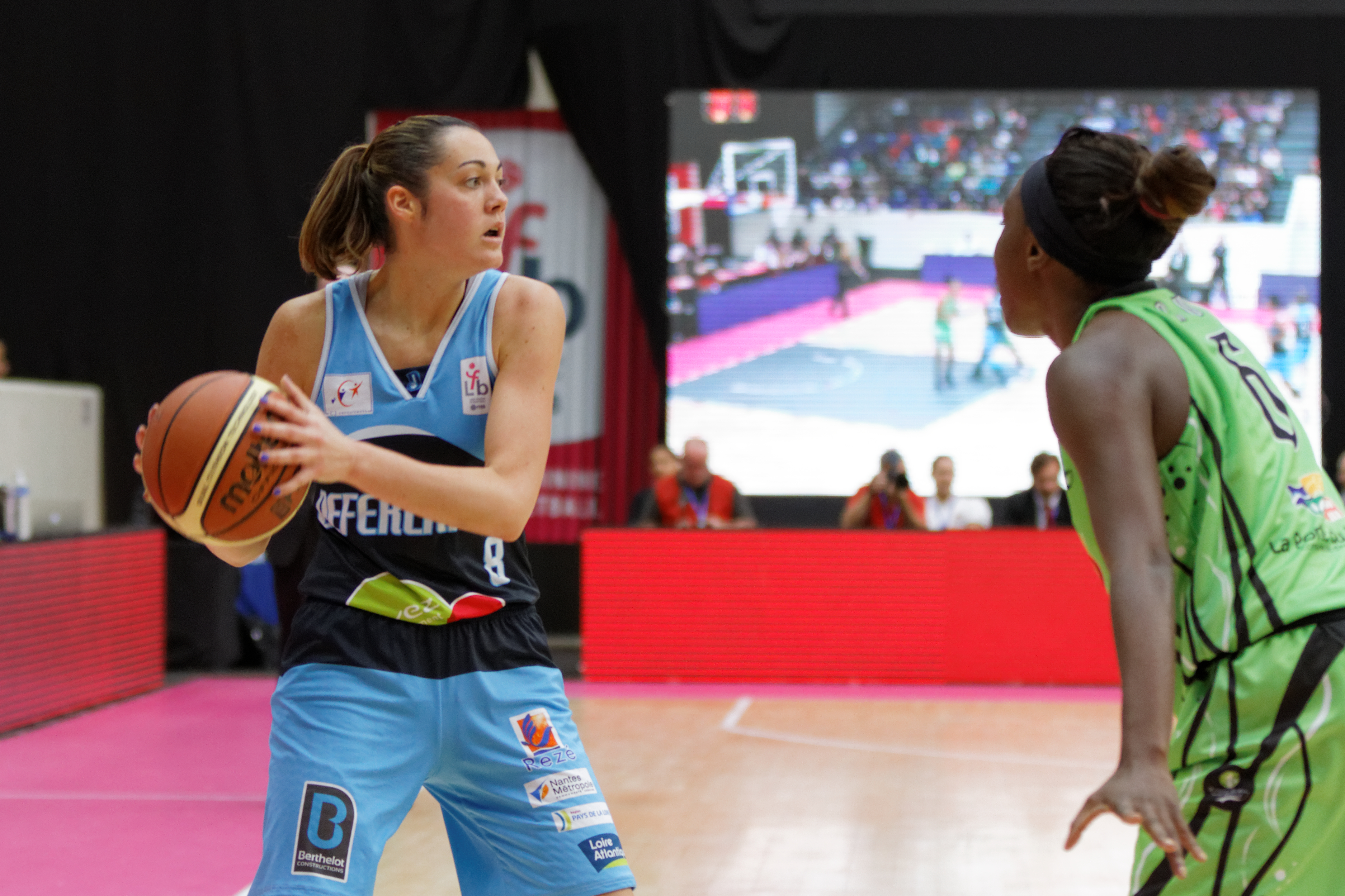 Open LFB, Hainaut Basket-Nantes Rezé, October 6th, 2013.